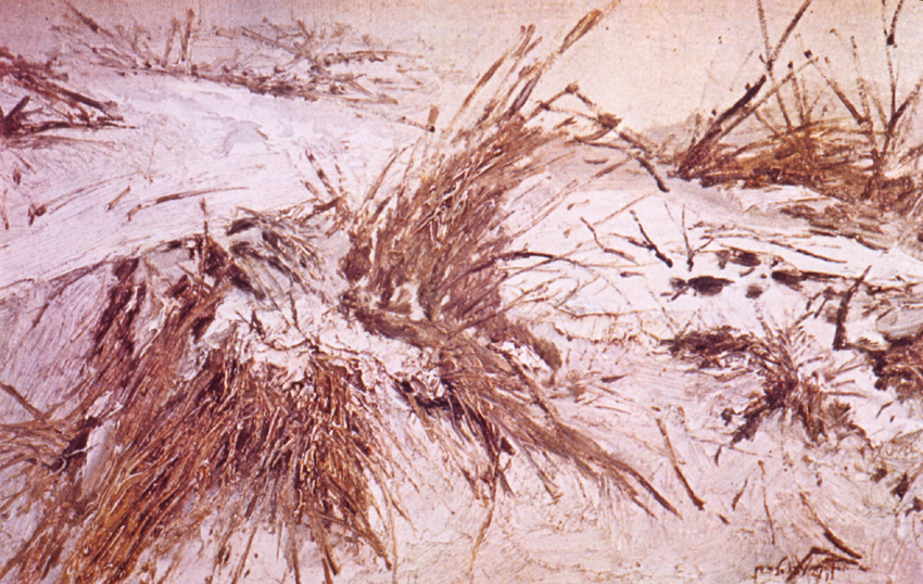 Artwork